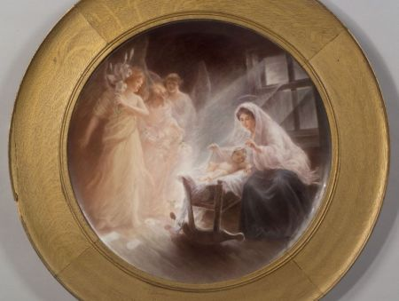 Arts and Crafts Hand Painted Porcelain Plaque of Mary and Baby Jesus, dated 1913, the round Limoges plaque signed to back L. Vance Phillips, depicting an interior scene of Mary overlooking her baby sleeping in a cradle, in the company of three angels bearing lily and rose stems, in giltwood frame, sight size 17 7/8 in. Note: L. Vance Phillips was a skilled porcelain painter and art educator during the Arts & Crafts movement, and in 1896 published a seminal book on the subject entitled The Book of the China Painter. Estimate $1,500-2,000